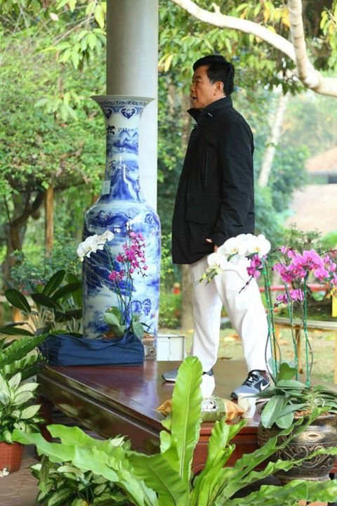 Daosių meistras Mantekas Čija